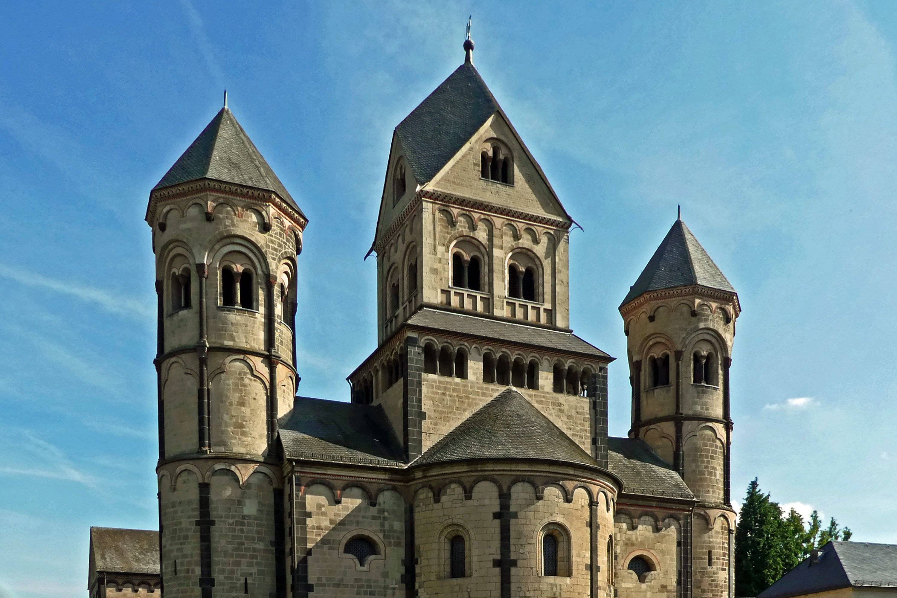 Towers of the western building of the Benedictine Abbey Maria Laach, Germany